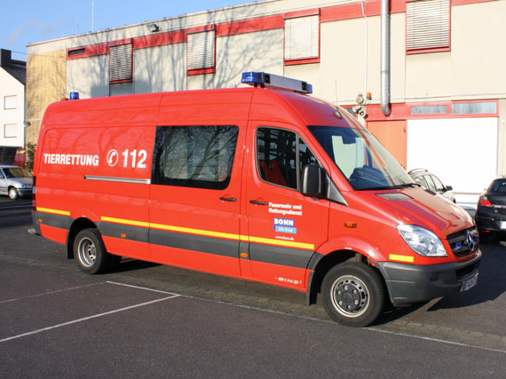 Animal rescue Equipment truck in Bonn, Germany